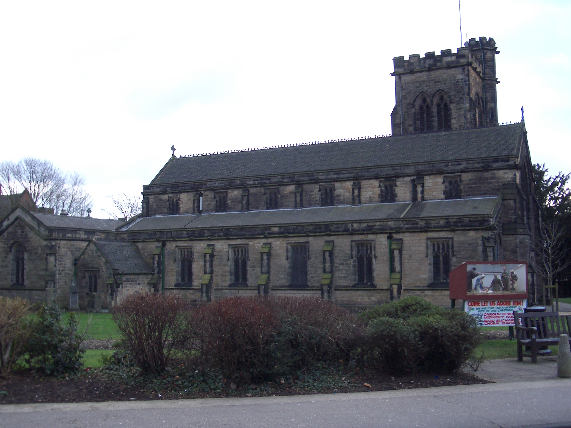 St John the Baptist parish church, Beeston, Nottinghamshire